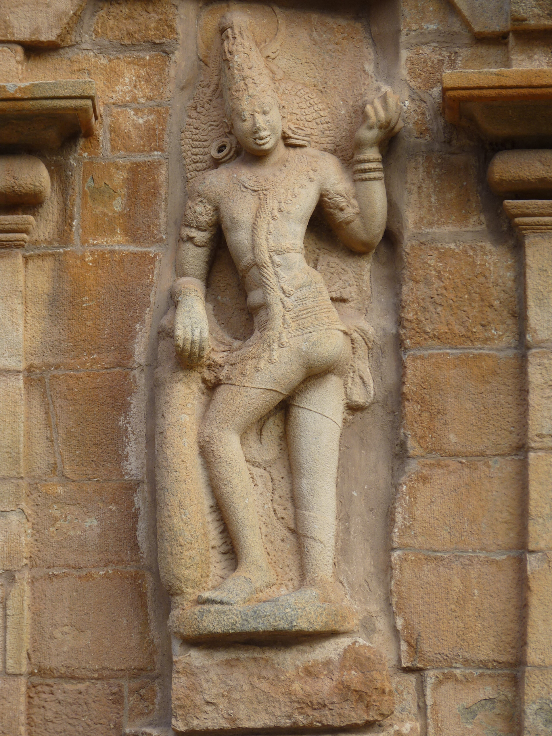 Thuvara Balagar Sculpture at Narthamalai